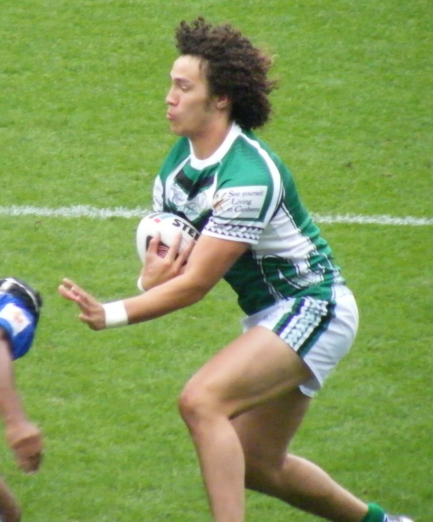 Maori interchange forward Kevin Proctor. RLWC 2008 Aboriginal dreamtime team versus New Zealand Maori.